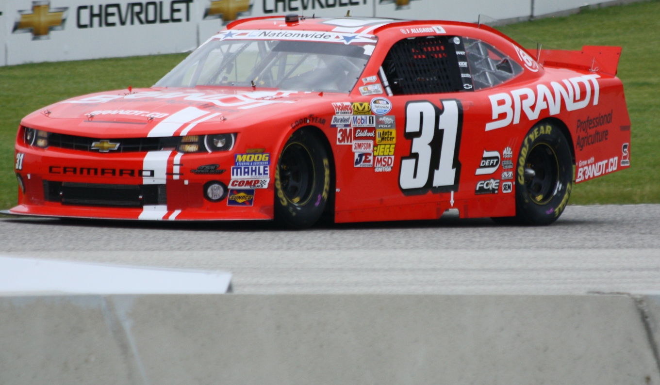 The NASCAR Nationwide car of Justin Allgaier during the w:2013 Johnsonville Sausage 200 at Road America.